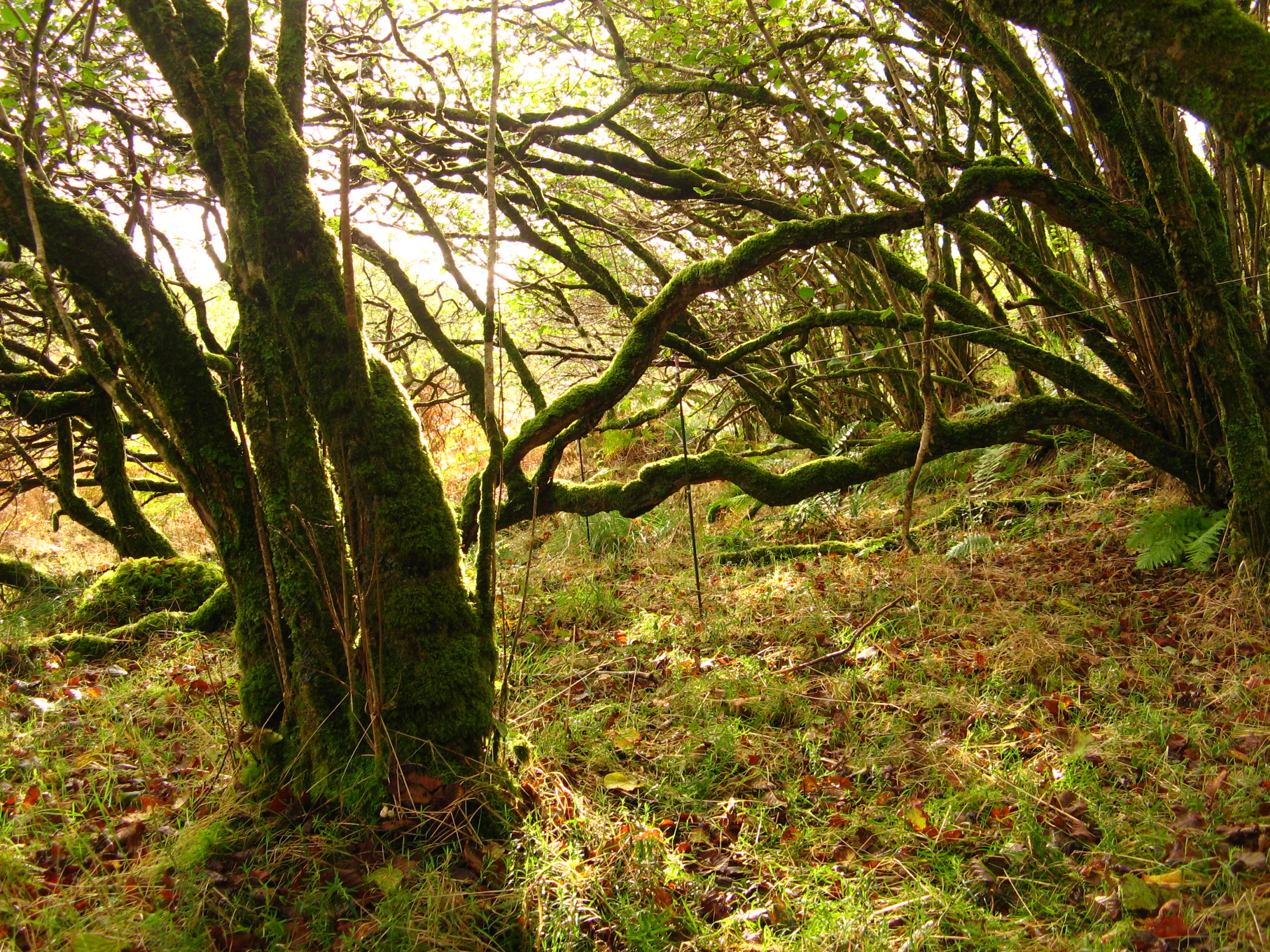 Old growth hazel at Ballachuan hazelwood, Seil, Scotland